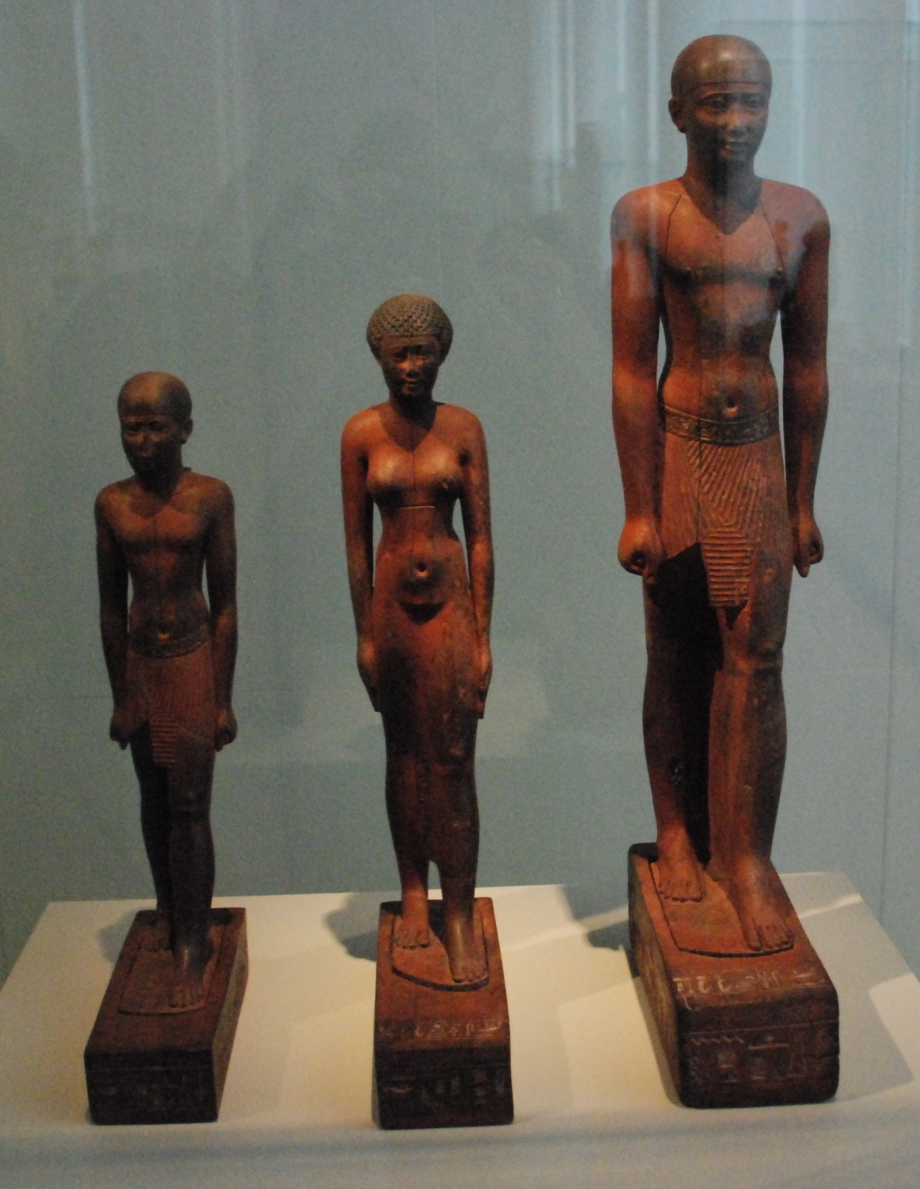 Sculptural group of Psammetich, his wife and his son